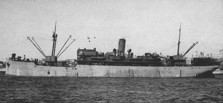 United States Army Transport General W. C. Gorgas during World War II. She served as the United States Navy troop transport USS General W. C. Gorgas (ID-1365) in 1919